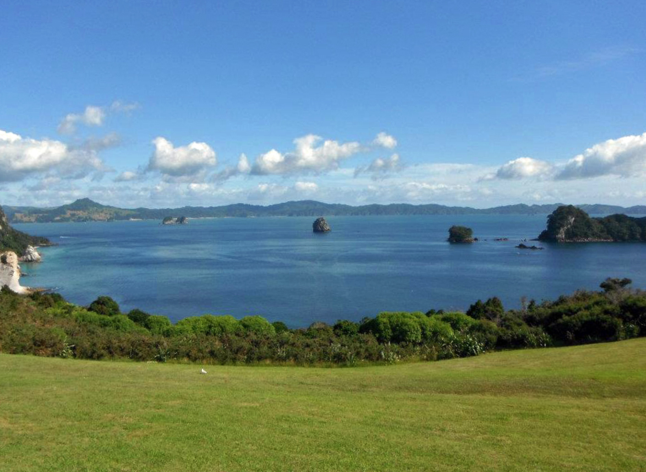 Mercury Bay from Cathedral Cove Recreation Reserve near Hahei, North Island, New Zealand